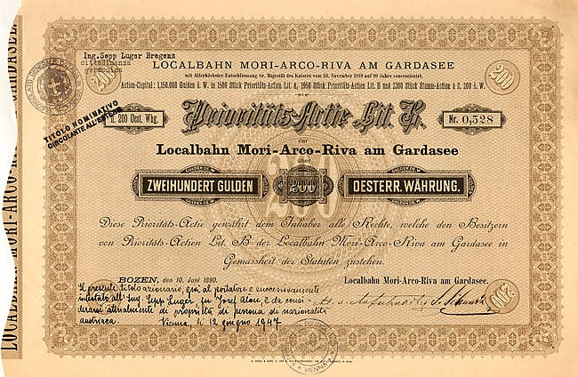 Stock certificate of the railway Mori–Arco–Riva in Trentino, Italy.